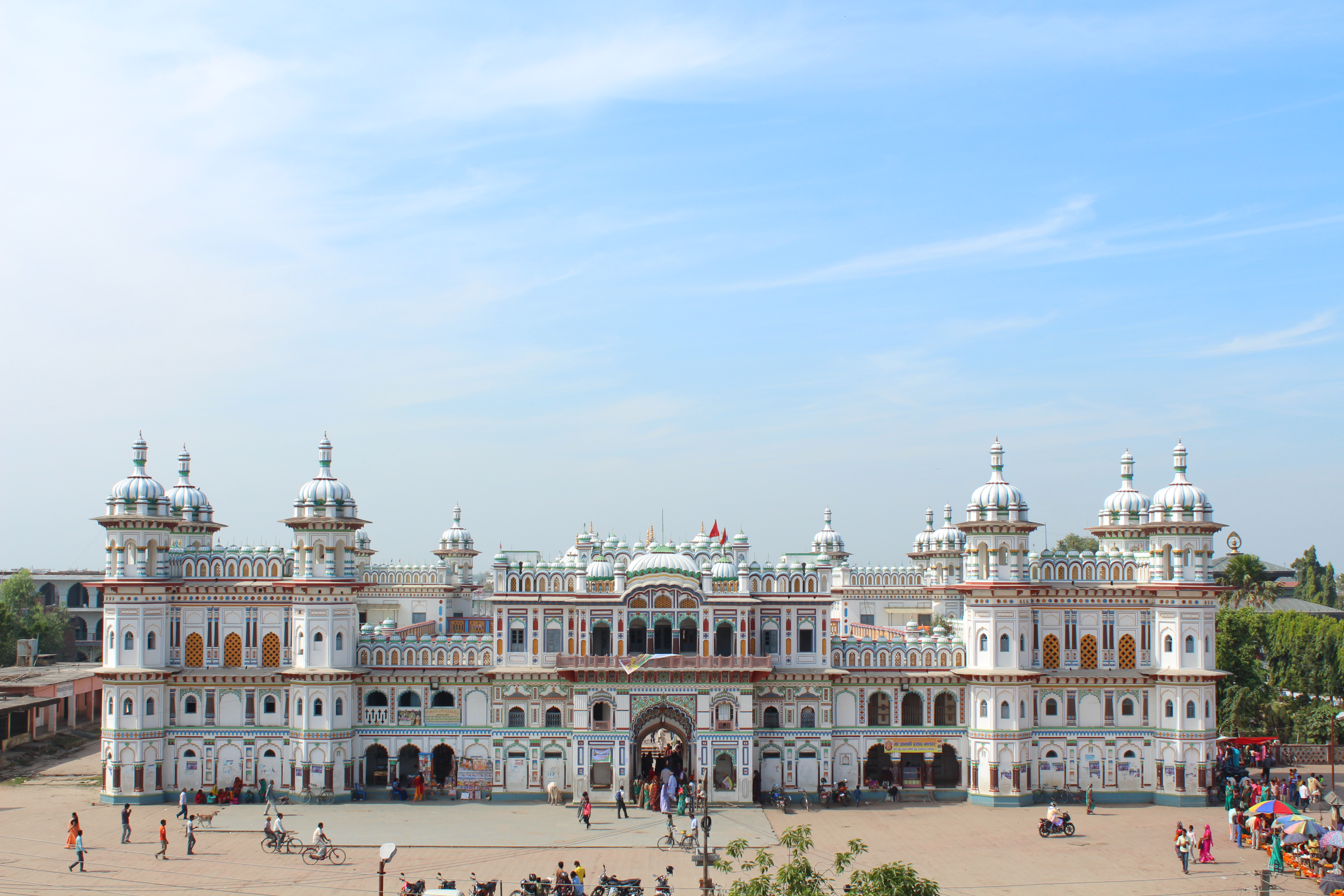 Janki Mandir (temple) of Janakpur, Nepal (full frontal view). This photograph was captured by Abhishek Dutta ( I was born in Janakpur and love to photograph this historical temple whenever I visit Janakpur.